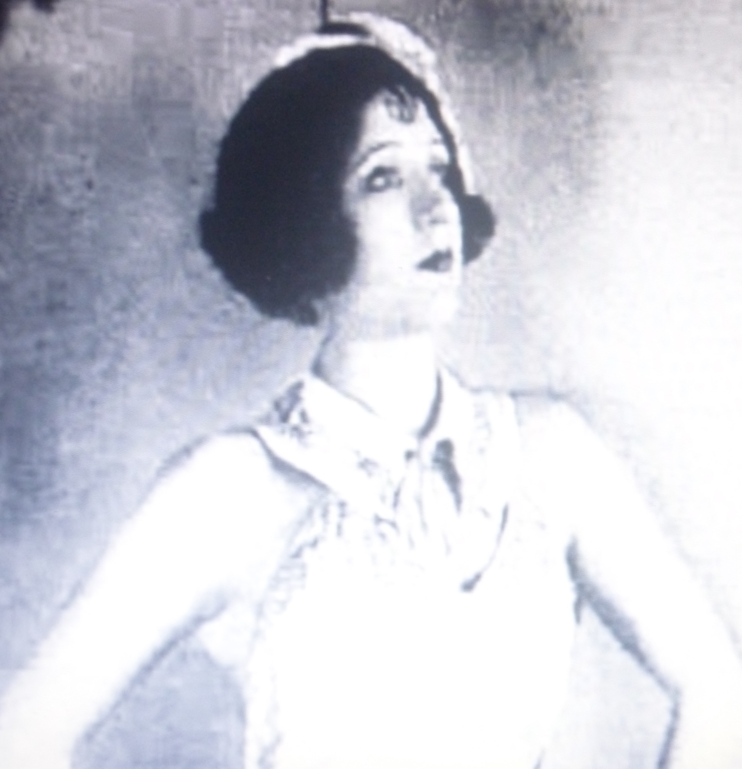 Amanda Falcón- actriz y cancionista argentina